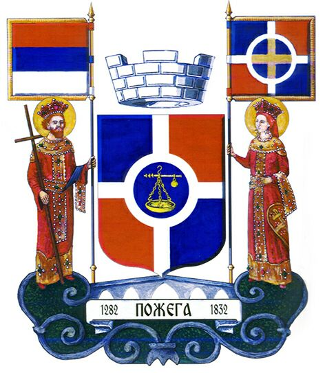 Coat of arms of Požega, Serbia/Blason de la ville de Požega, Serbie